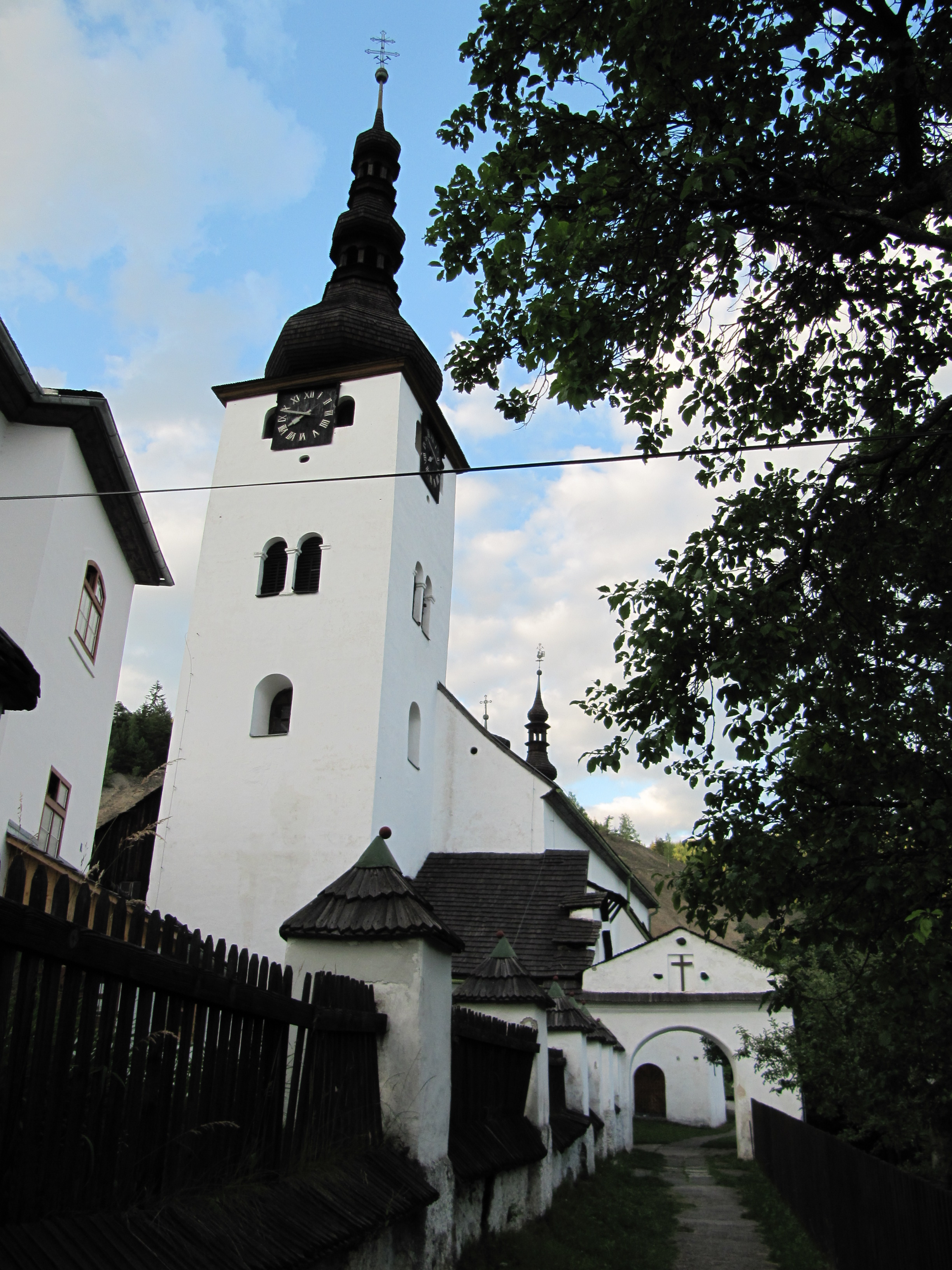 Church of the Transfiguration of the Lord in Špania Dolina, Slovakia.